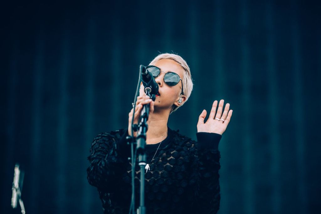 Alisa Xayalith